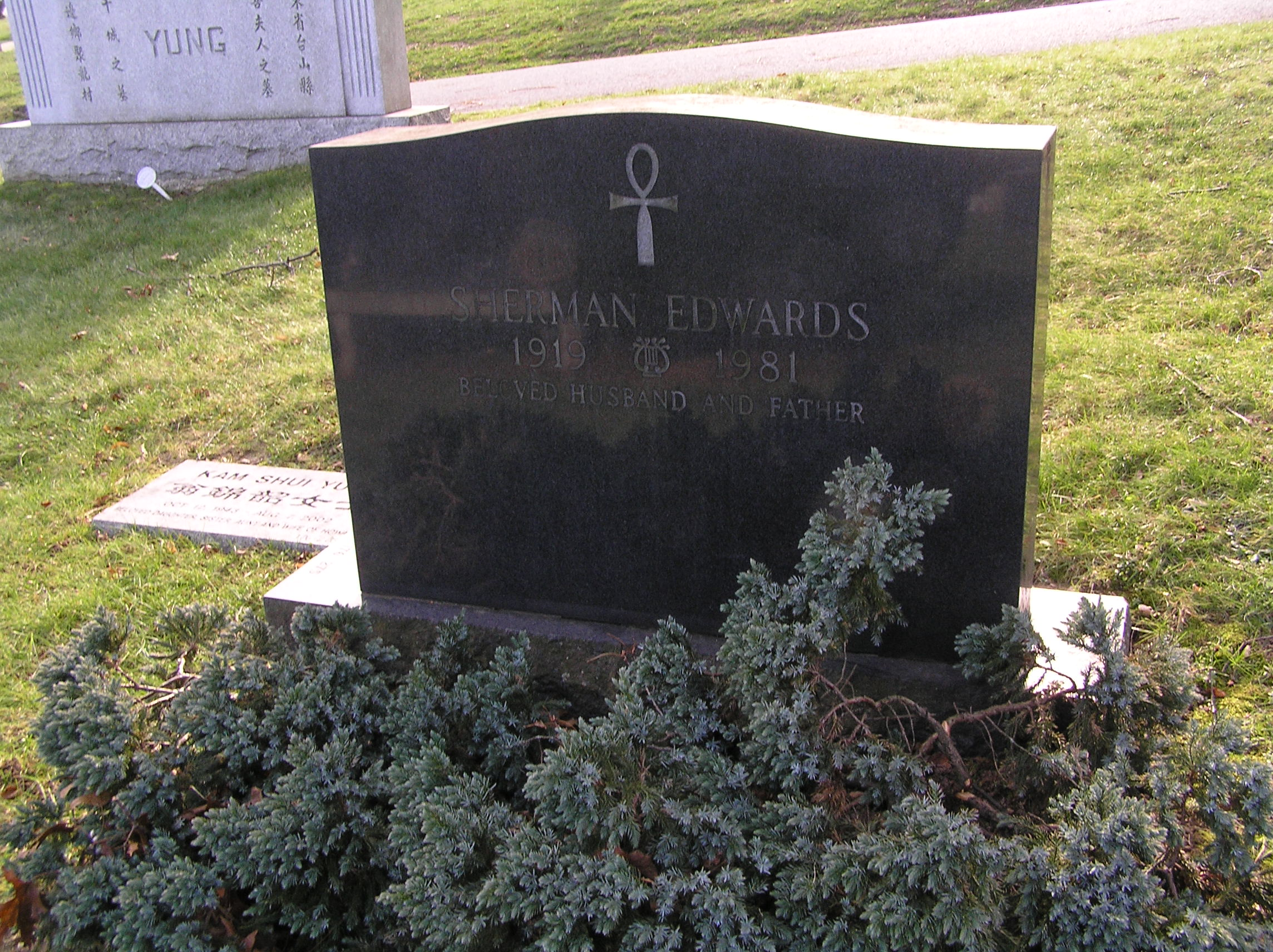 The final resting place of Sherman Edwards in Kensico Cemetery